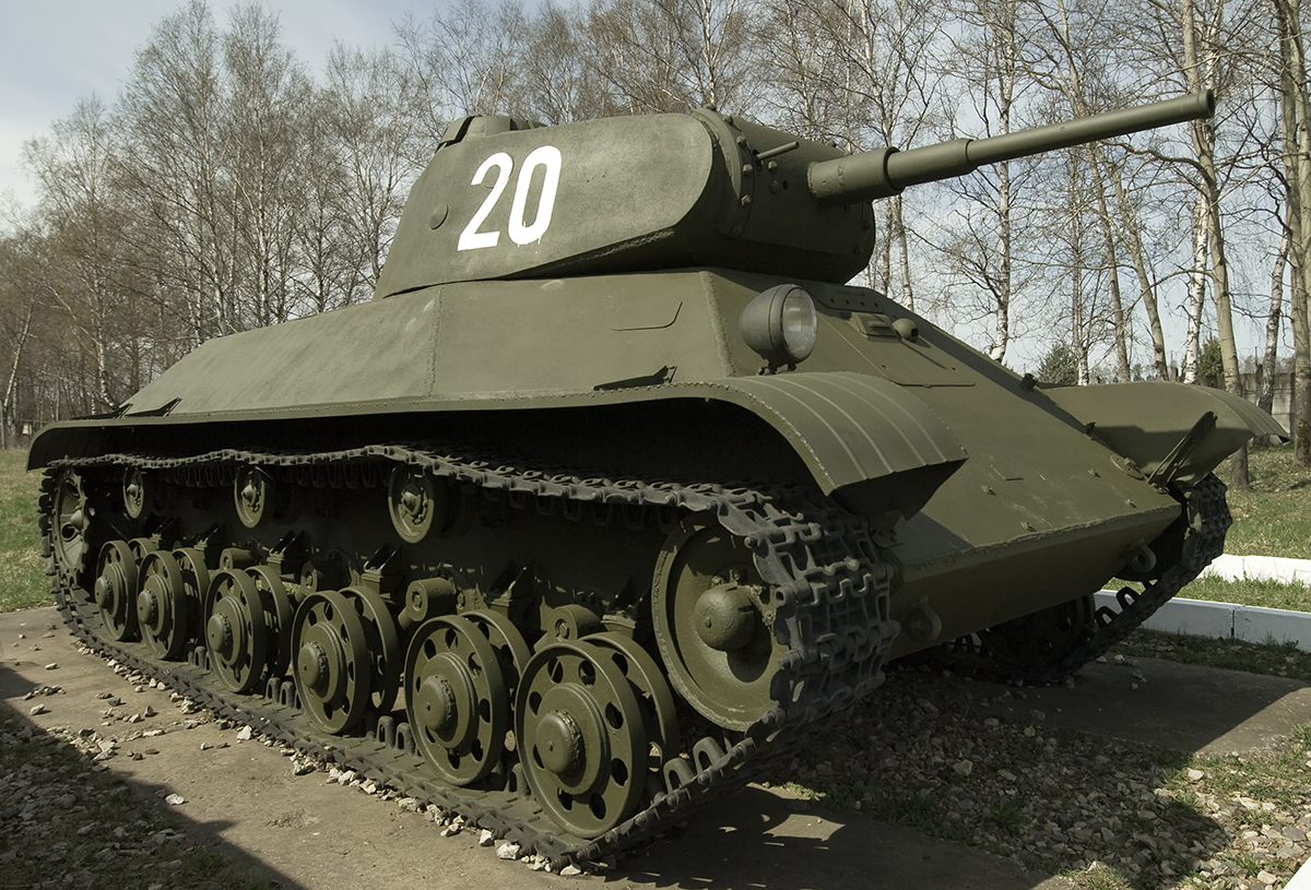 The easy tank T-50